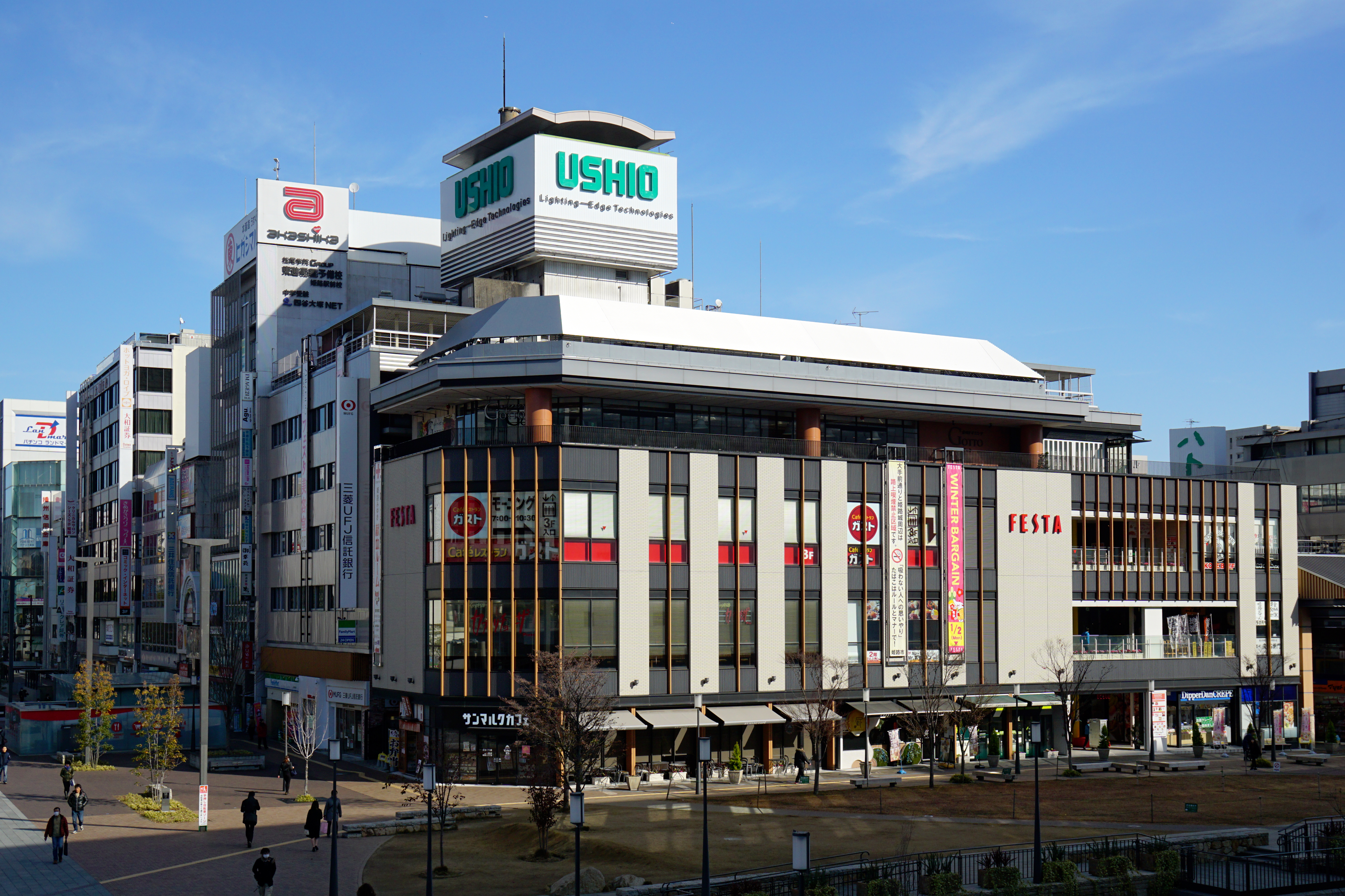 FESTA in Himeji, Hyogo prefecture, Japan